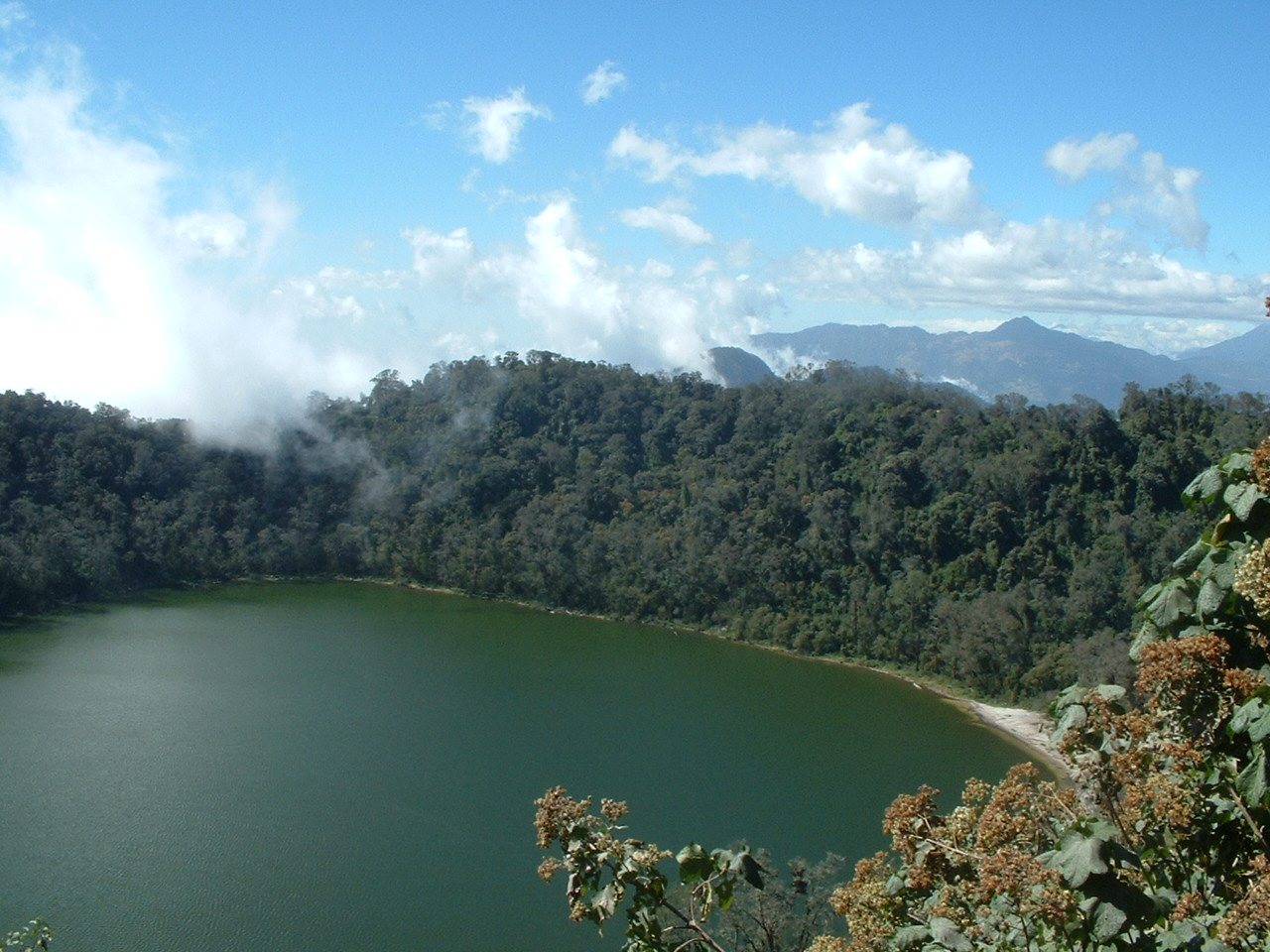 large (1280 x 960) photo of Laguna Chicabal, Guatemala